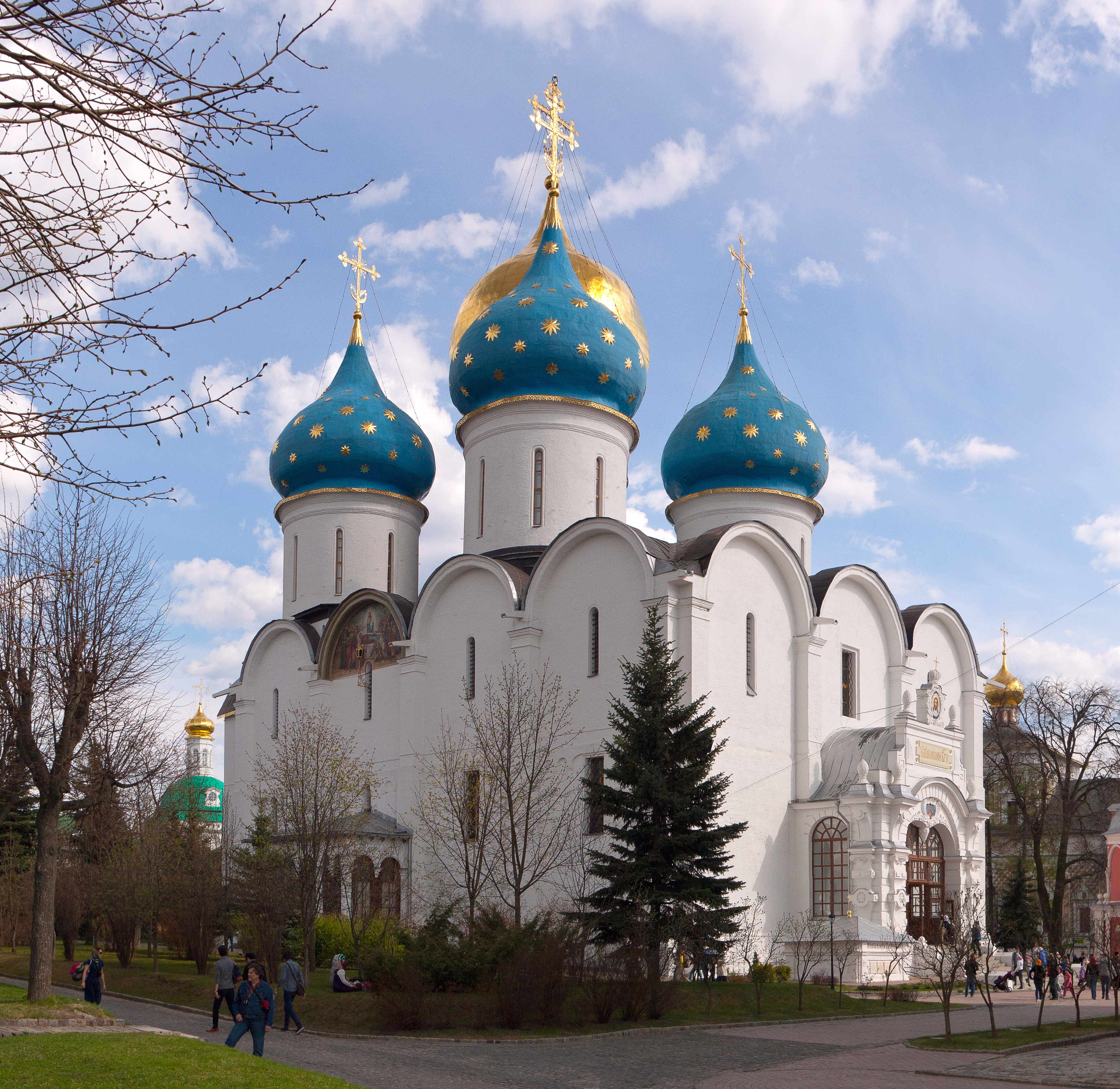 Assumption Cathedral in Troitse-Sergiyeva Lavra, Sergiev Posad, Moscow Oblast, Russia